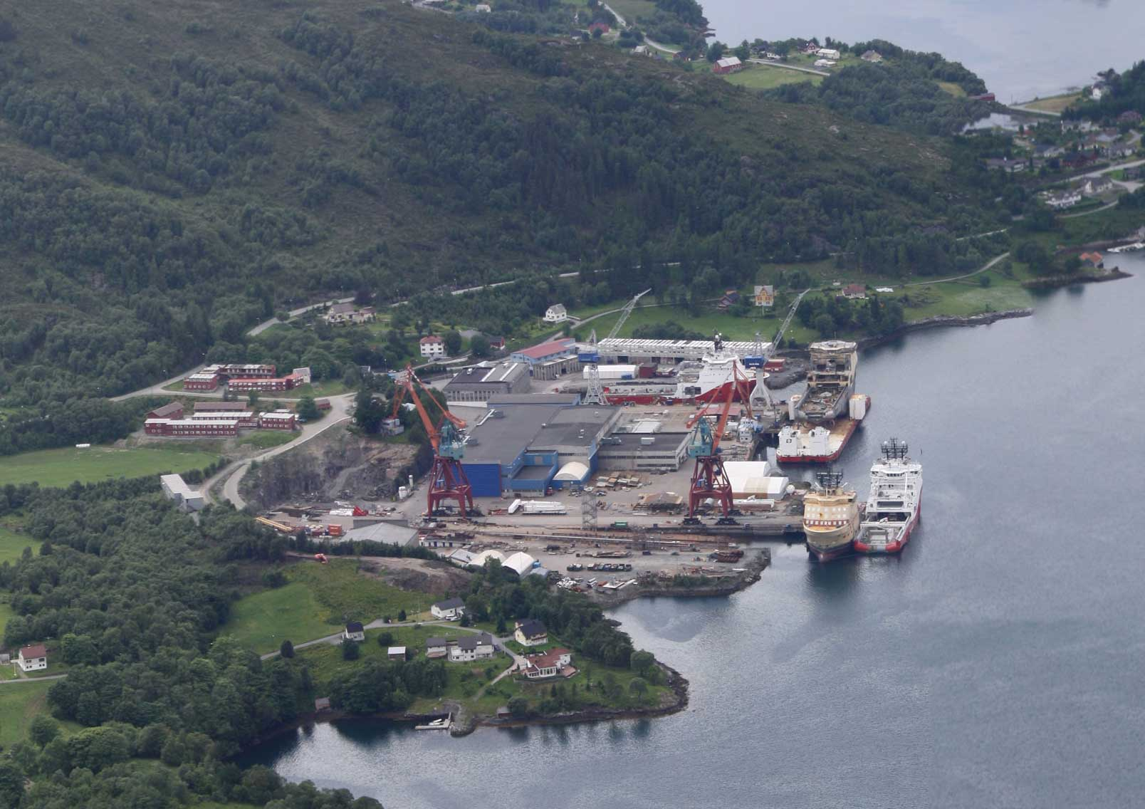 Kleven shipyard, seen from the peak Hasundhornet just outside Ulsteinvik city